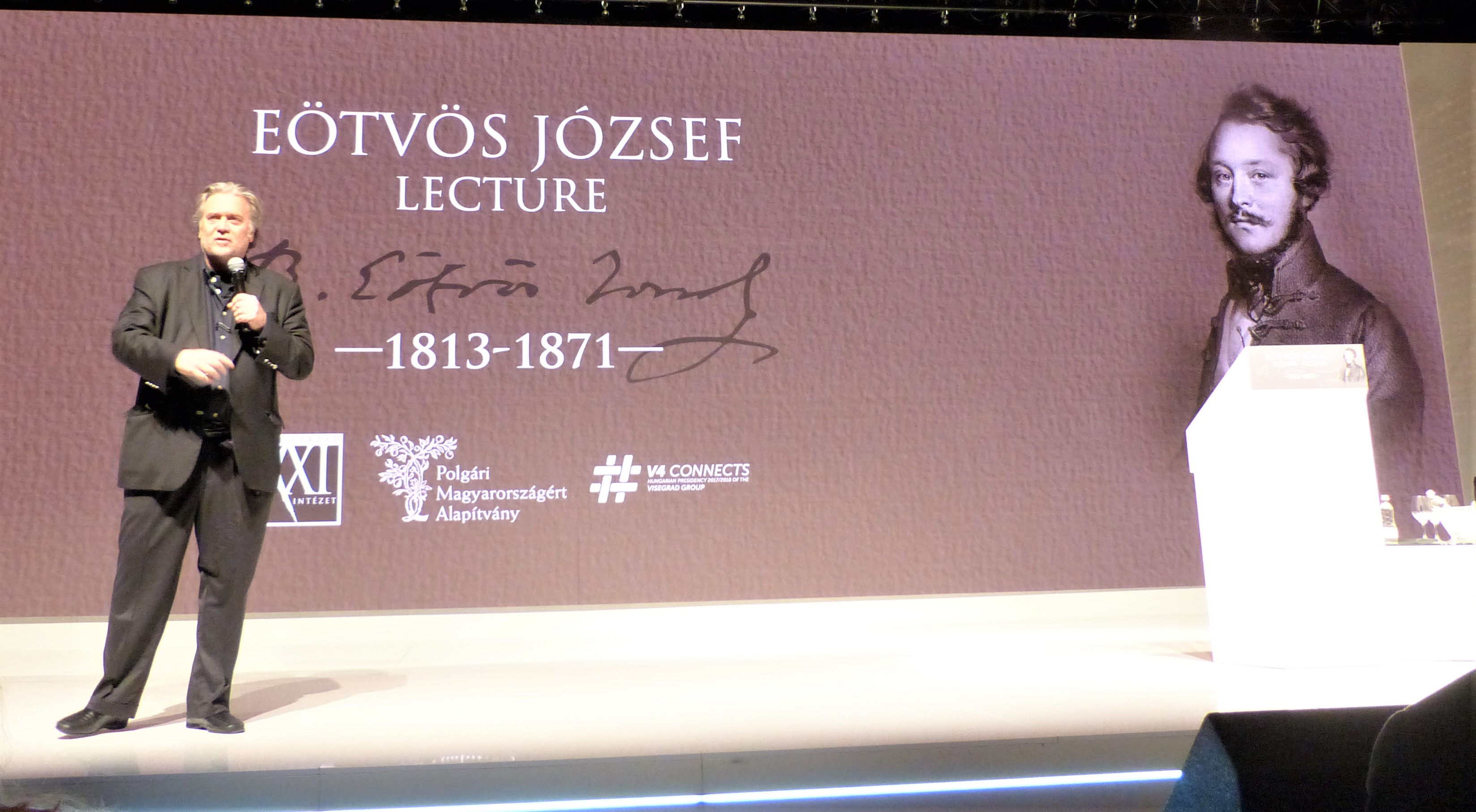 Steve Bannon. Eötvös József Lecture. Wednesday, the 23rd of May, 2018. Polgári Magyarországért Alapítvány, XXI. Század Intézet, V4 Connects. Várkert Bazár, Budapest, Hungary, Central Europe.